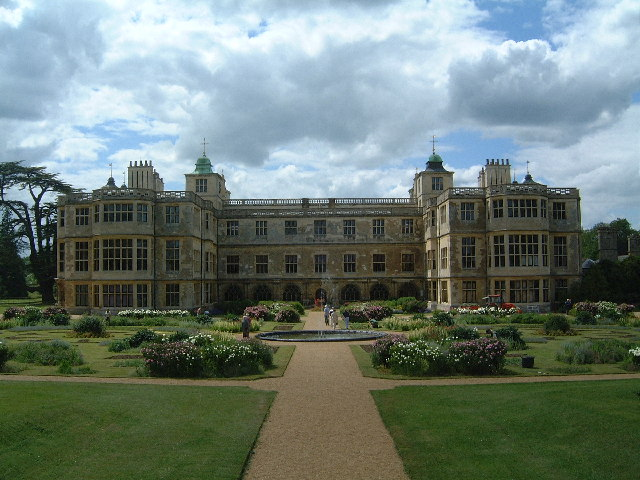 Rear view of Audley End House. A view of the rear side of the house and gardens. The gardens were remodelled by Lancelot 'Capability' Brown around 1763.